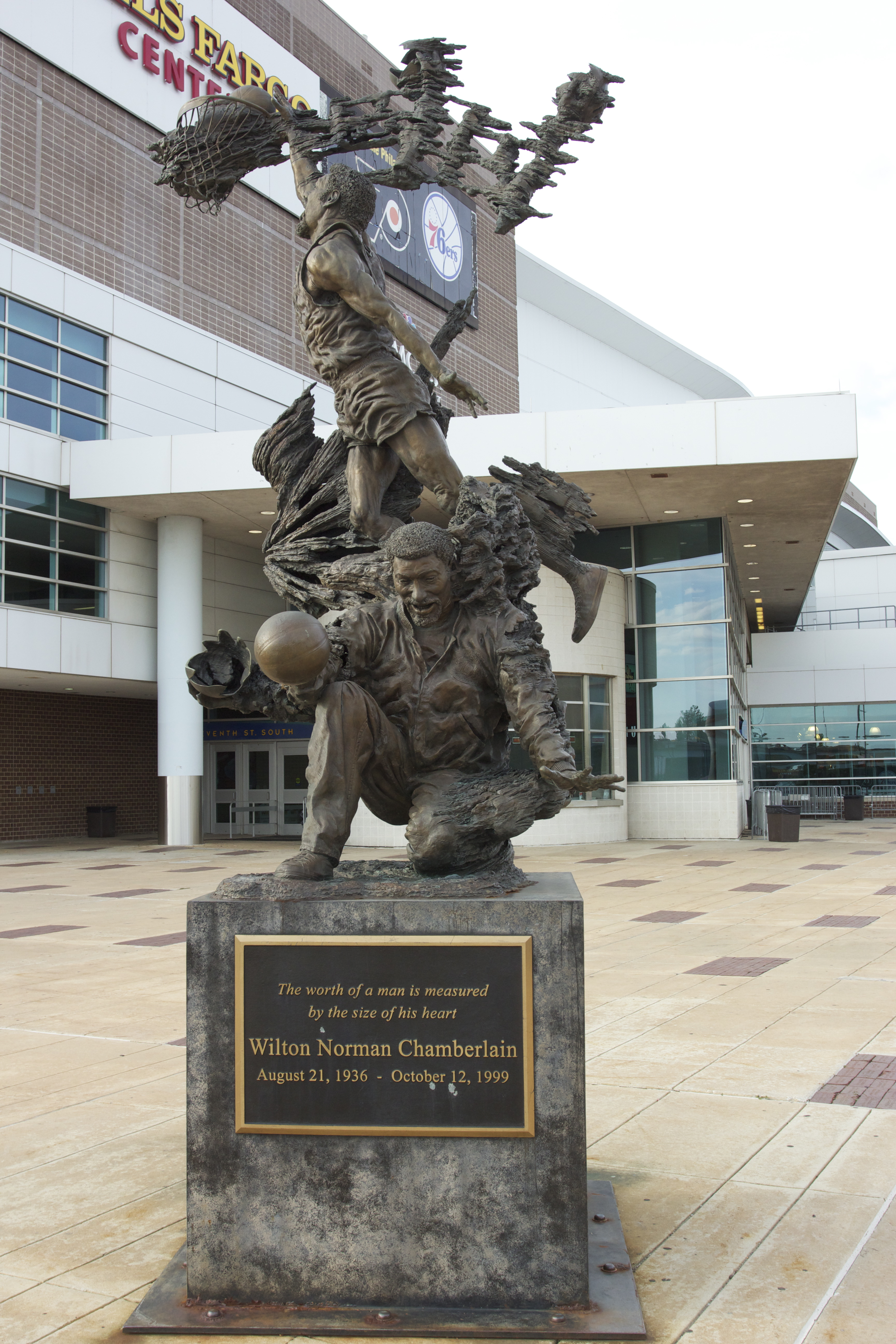 Sports statues in South Philadelphia